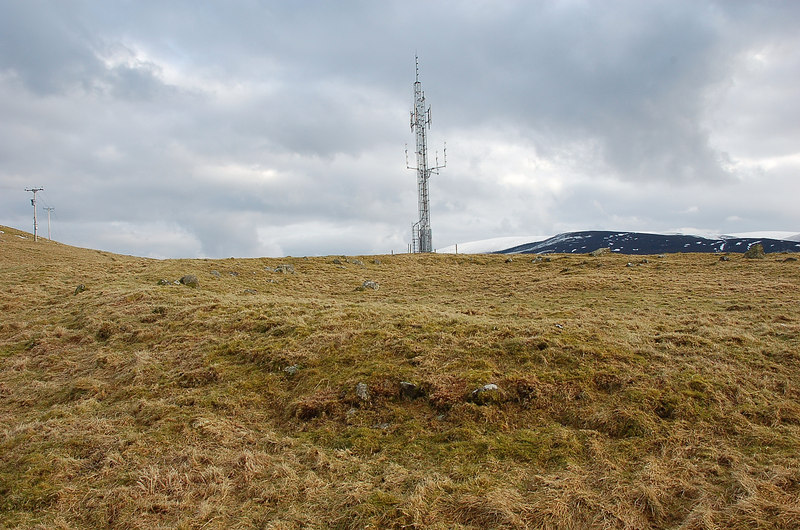 Communication mast and ancient settlement site, Dreva A settlement site is marked east of the road on Dreva, and the bank in the foreground is possibly associated with this - an interesting juxtaposition.